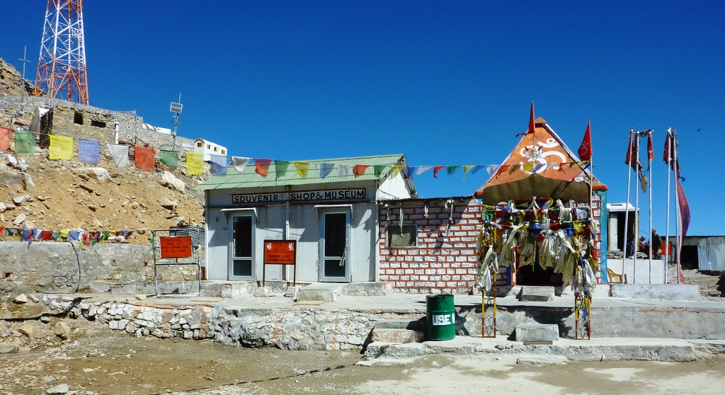 I took this photo while crossing the Khardungla into Nubra in 2010